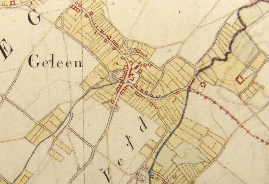 From nl.wikipedia; upload by Ed Stevenhagen; watermark removed by Erik Baas; description was: Tranchotkaart van Geleen (L) uit 1802. Digitale bewerking Stevenhagen. Origineel Staatsbibliothek Preussischer Kulthurbesitz, Berlin. Vrij te gebruiken. This work is in the public domain in its country of origin and other countries and areas where the copyright term is the author's life plus 100 years or less. You must also include a United States public domain tag to indicate why this work is in the public domain in the United States. This file has been identified as being free of known restrictions under copyright law, including all related and neighboring rights.